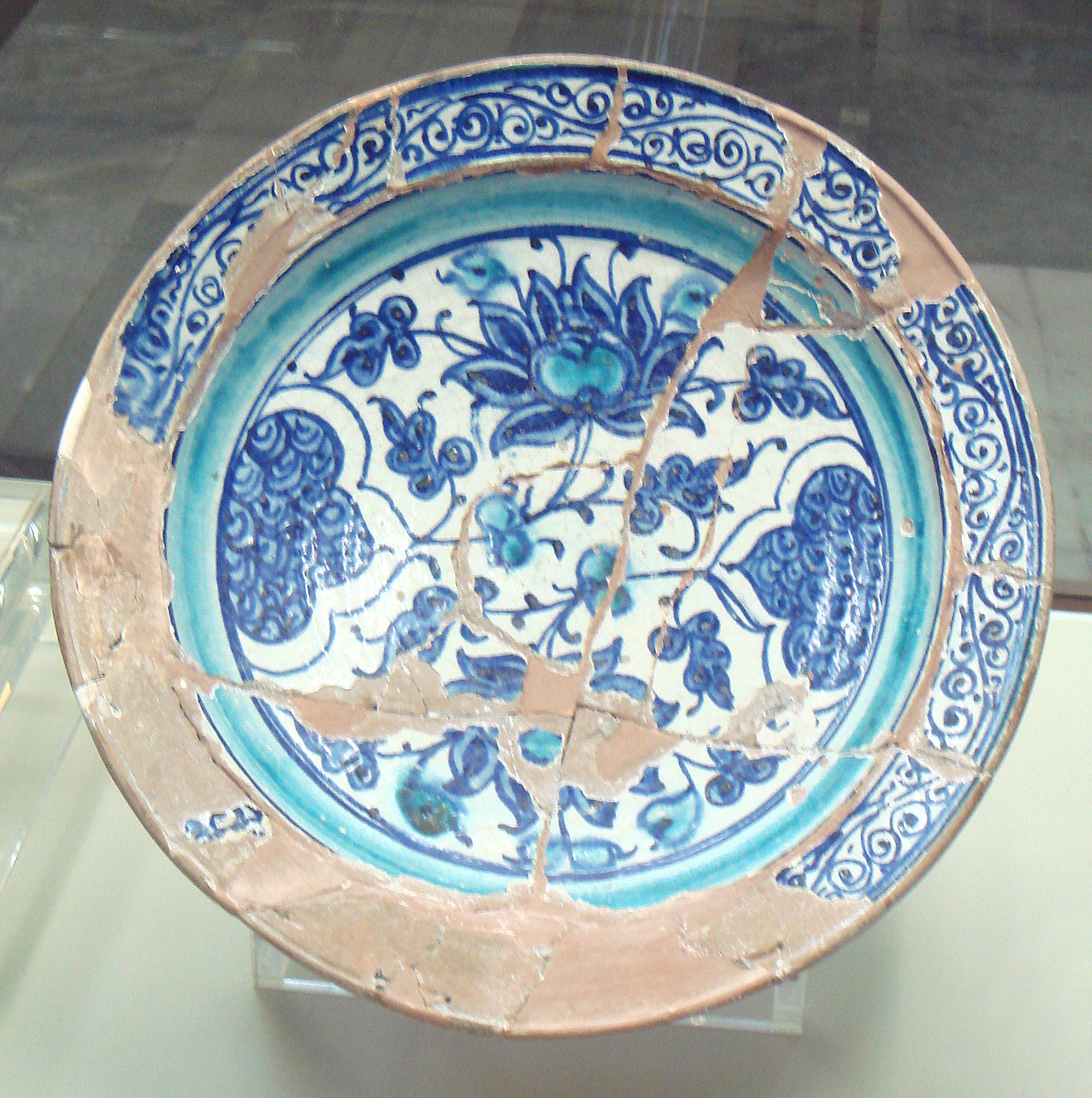 Miletus_ware_showig_red_clay_base